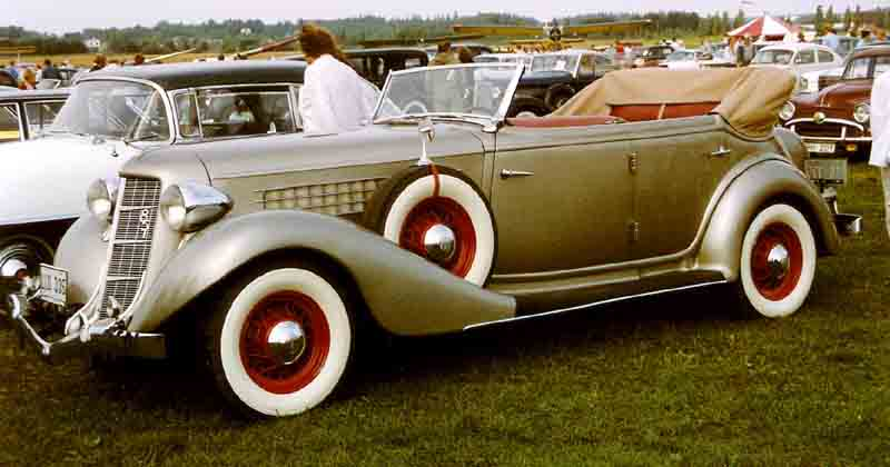 Auburn 851 Phaeton 1935